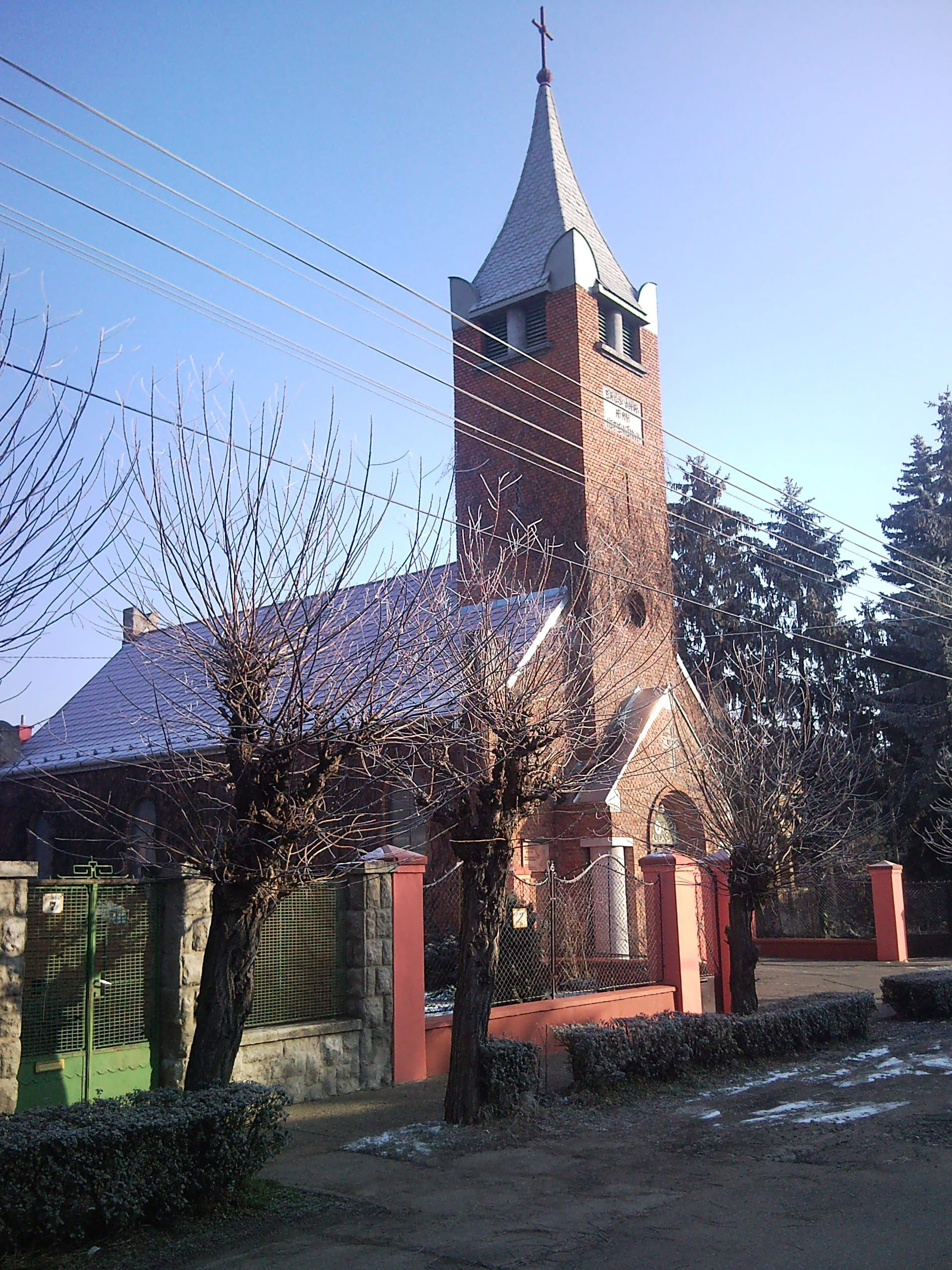 The lutheran church in Hatvan, Hungary